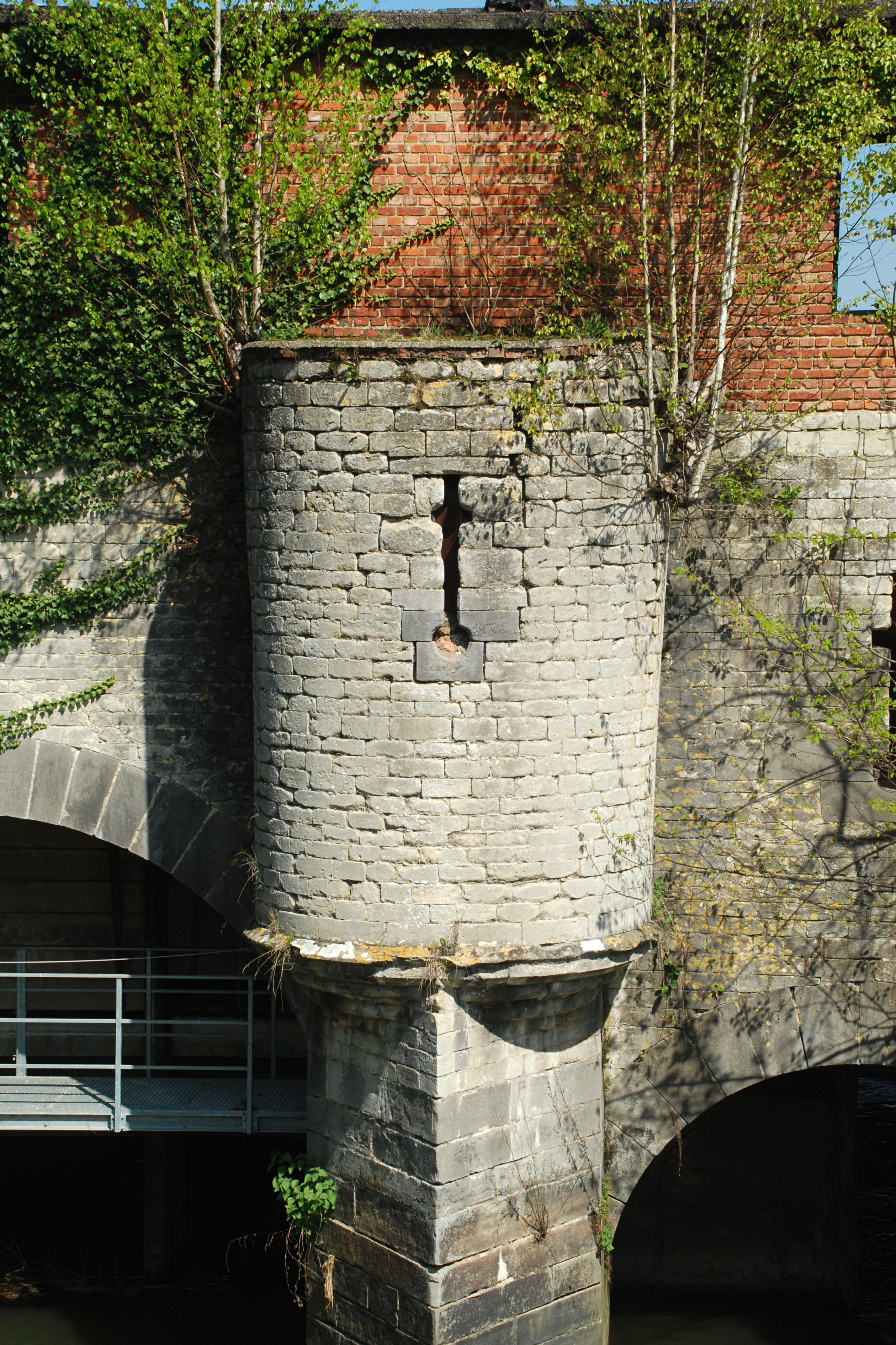 Belgium - Leuven - great lock